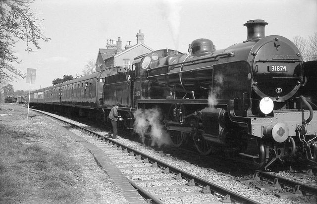 A Maunsell 'N' Class No. 31874 locomotive, which has been saved from scrap and restored, waits on the 3.5-mile Mid-Hants railway.